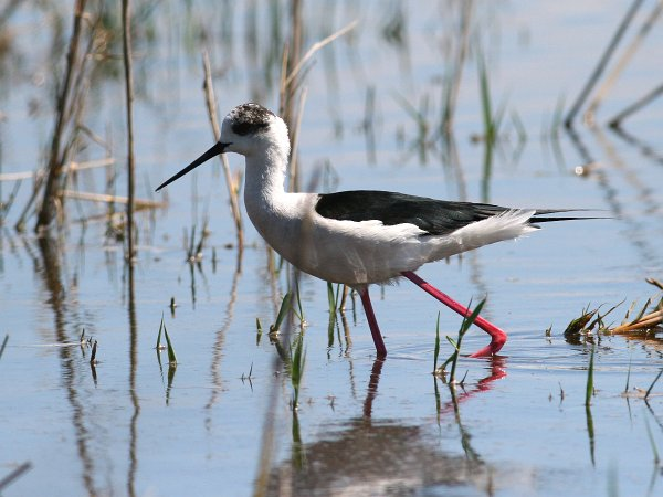 Black-Winged Stilt (Himantopus himantopus)